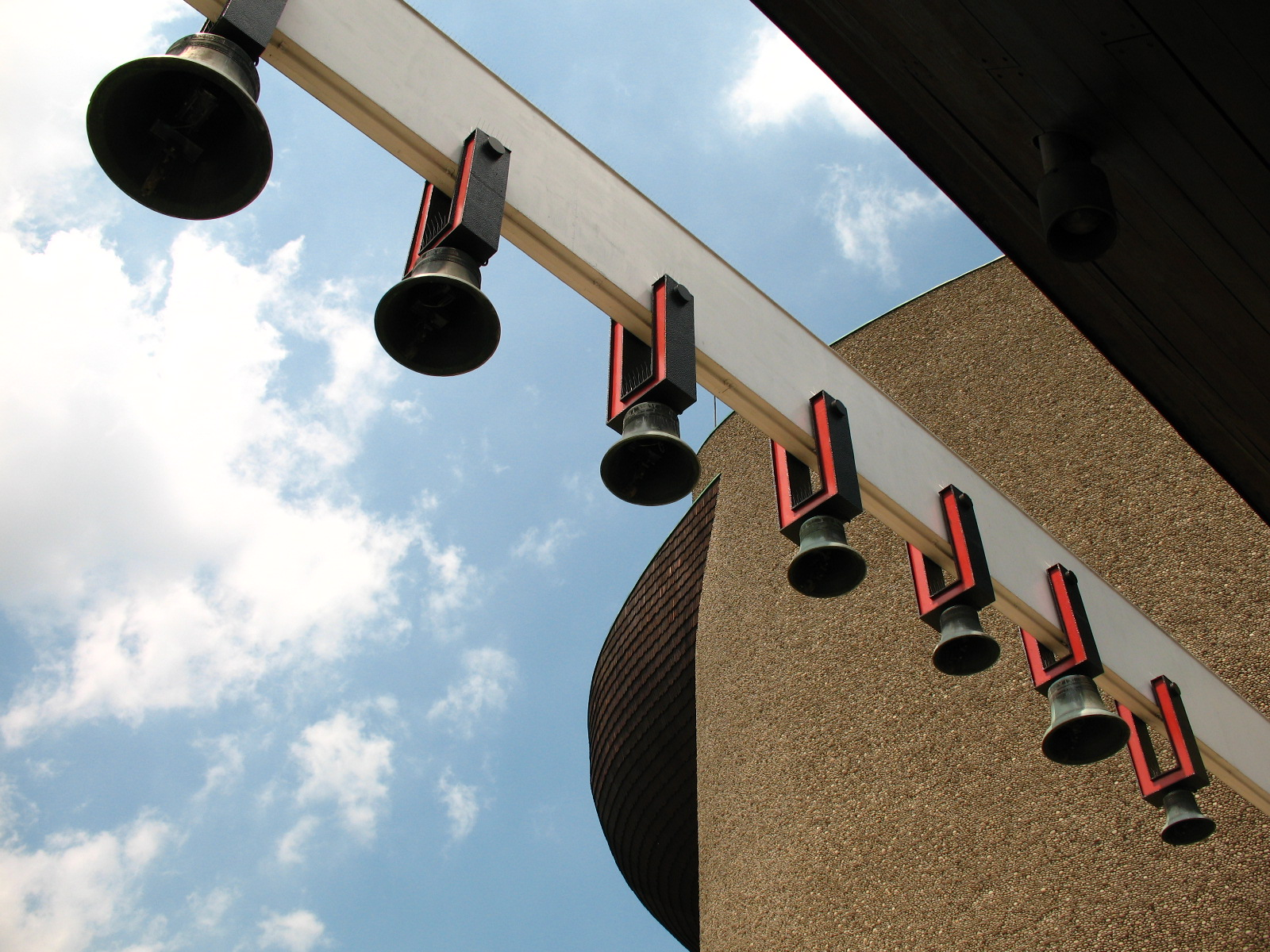 Bells. The Lord's Ark church in Bieńczyce, Nowa Huta district, Kraków, Poland.